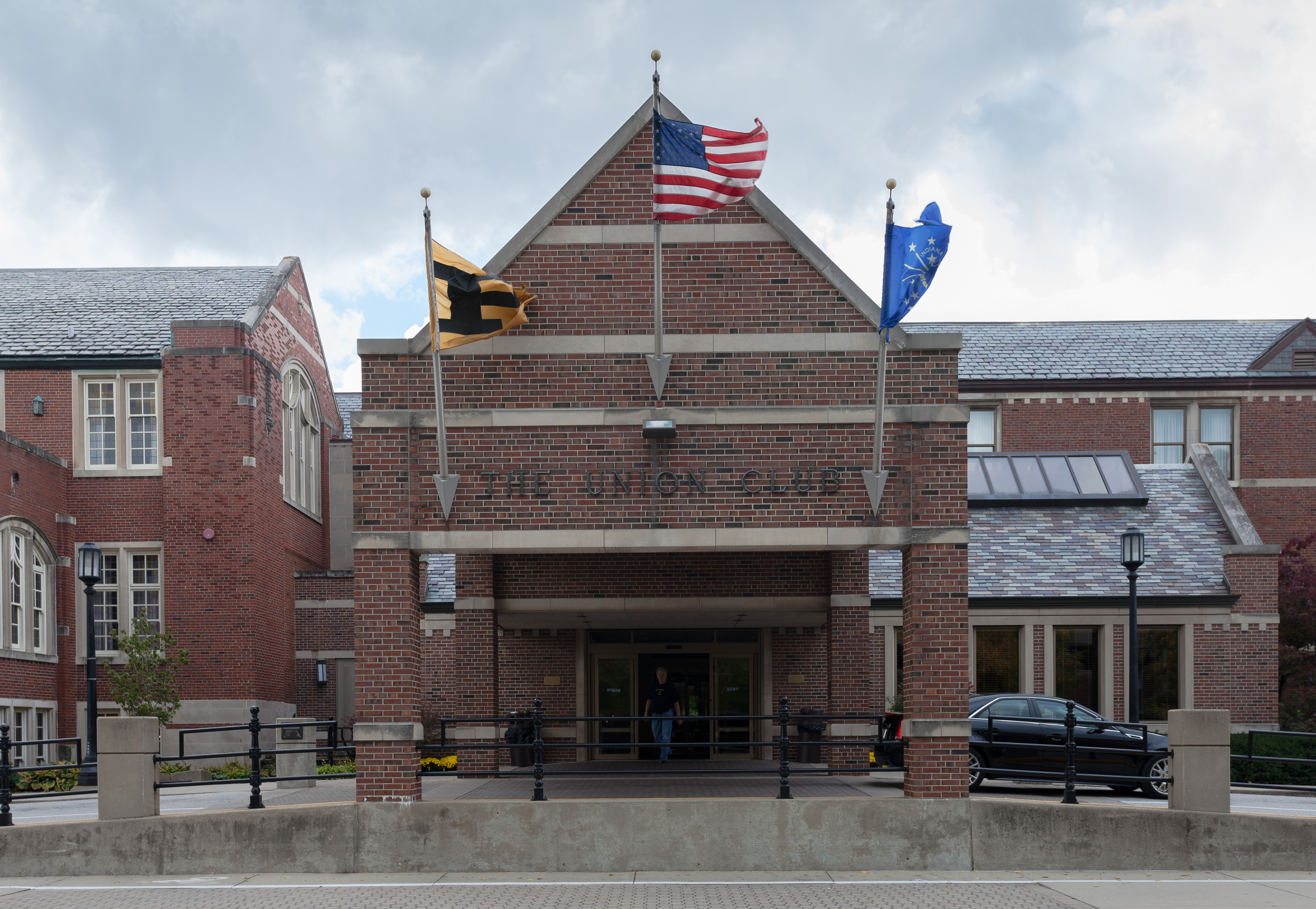 Purdue Memorial Union, Purdue University, West Lafayette, Indiana, USA